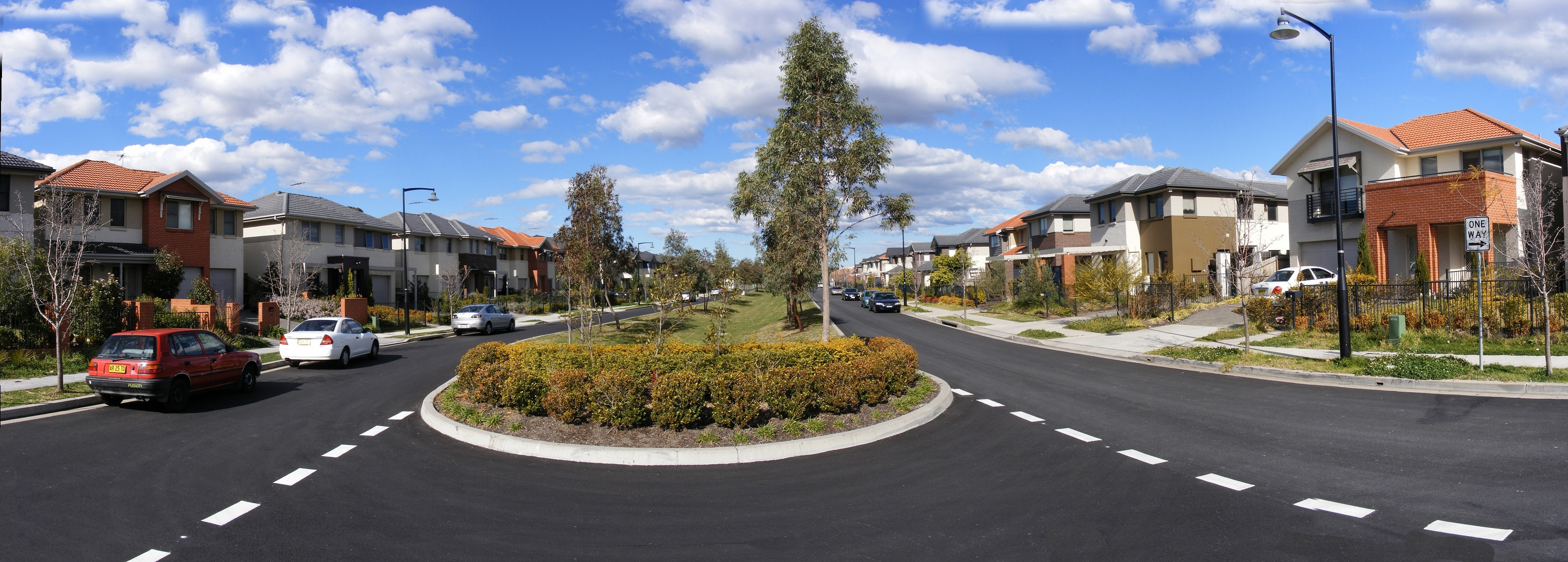 A street in Punchbowl, New South Wales